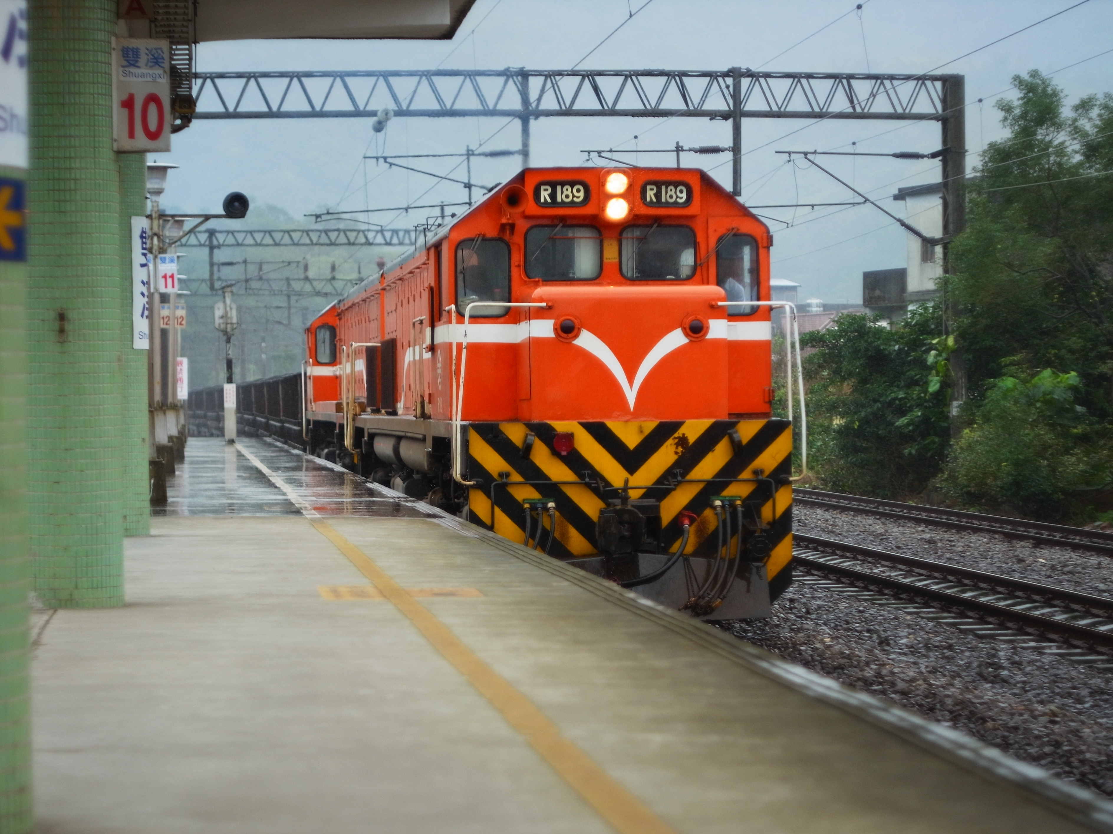 TRA R189 with freight cars across Shuangxi Station. 中文（台灣）: 臺灣鐵路管理局柴電機車R189牽引貨運列車通過雙溪站。